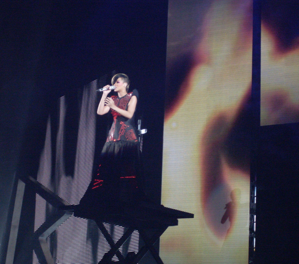 Rihanna in her Last Girl on Earth Tour